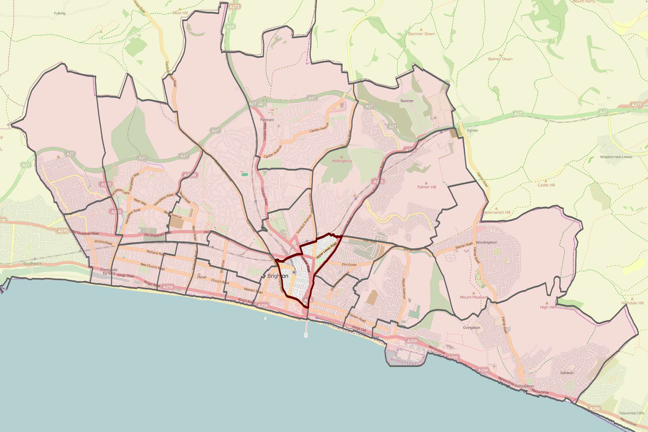 Map of Brighton and Hove wards with one ward highlighted